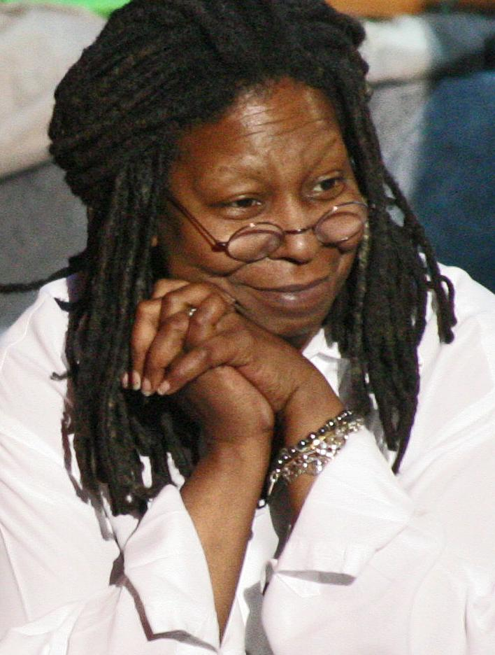 Whoopi Goldberg, during dress rehearsal at Comic Relief 2006, in Las Vegas, as photographed by Daniel Langer.